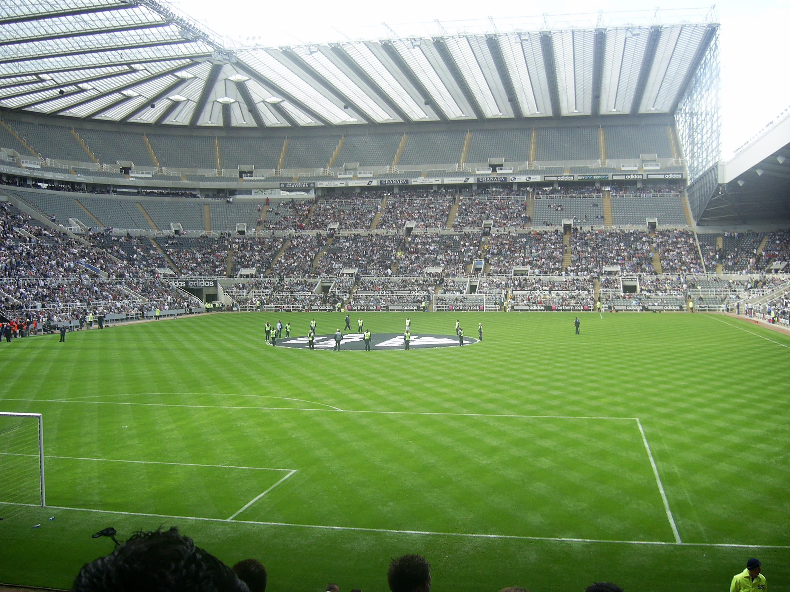 View from South Stand before friendly match against Juventus.